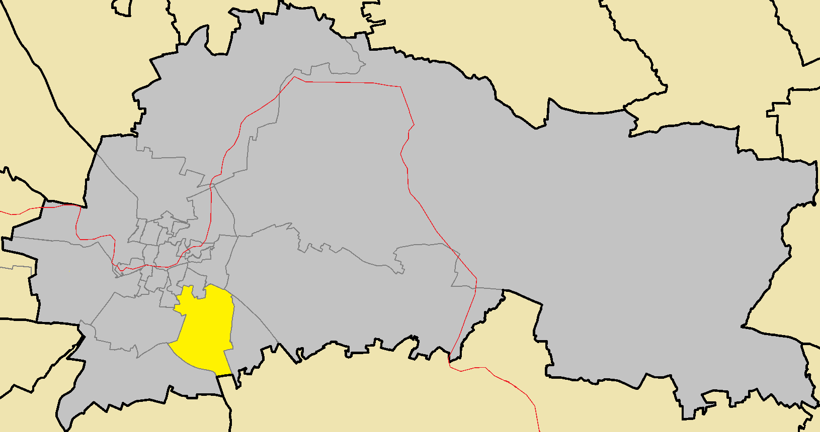 Ayios Antonios in Nicosia Municipality.